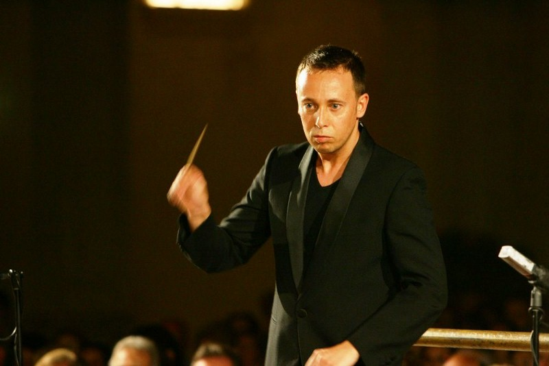 Matteo Beltrami